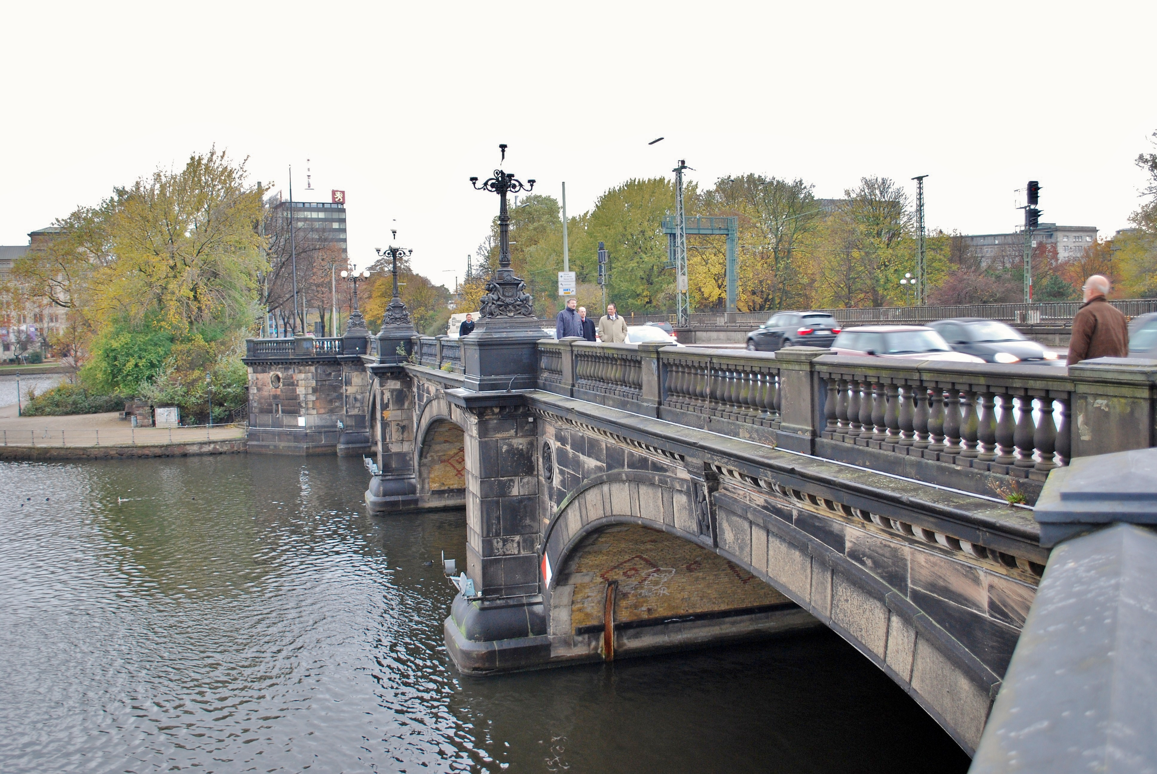 Lombardsbrucke in Hamburg This is a photograph of an architectural monument.